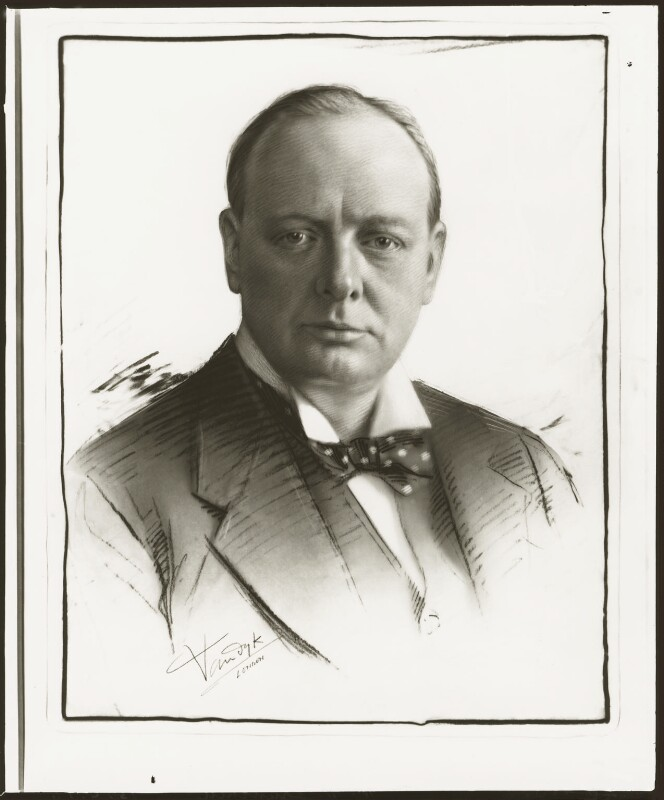 Sir Winston Churchill, 1923, copied on 15 April 1926